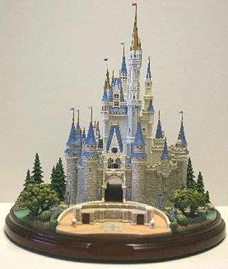 Olszewski's replica of Cinderella's Caste at the Walt Disney World theme park. Sculpture measurements are 12" high x 11.5" wide x 11" deep.